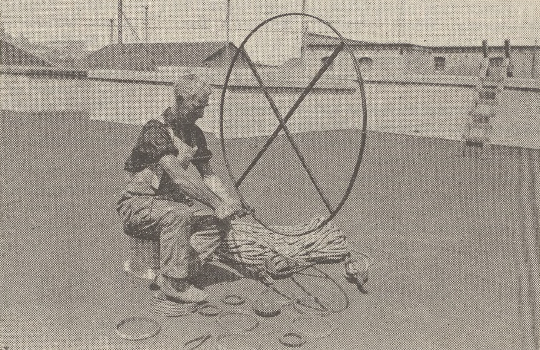 Wiring up the aerial of 2KY on the roof of the Trades Hall, Sydney